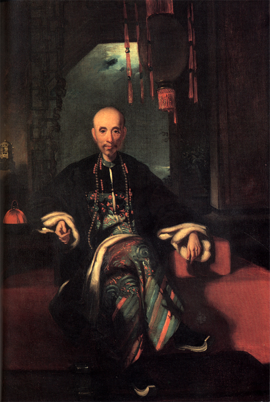 Howqua